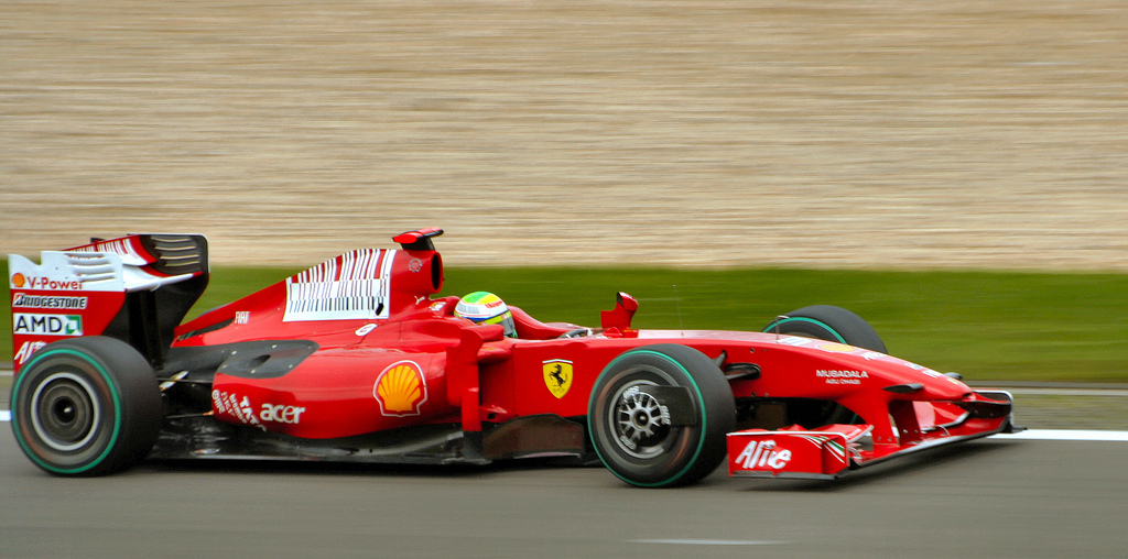 Felipe Massa driving for Scuderia Ferrari at the 2009 German Grand Prix.